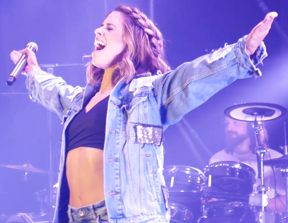 German Pop-Schlager-Singer Vanessa Mai during her "Für Dich Tour" at Alter Schlachthof, Dresden, Germany (24th October 2016).